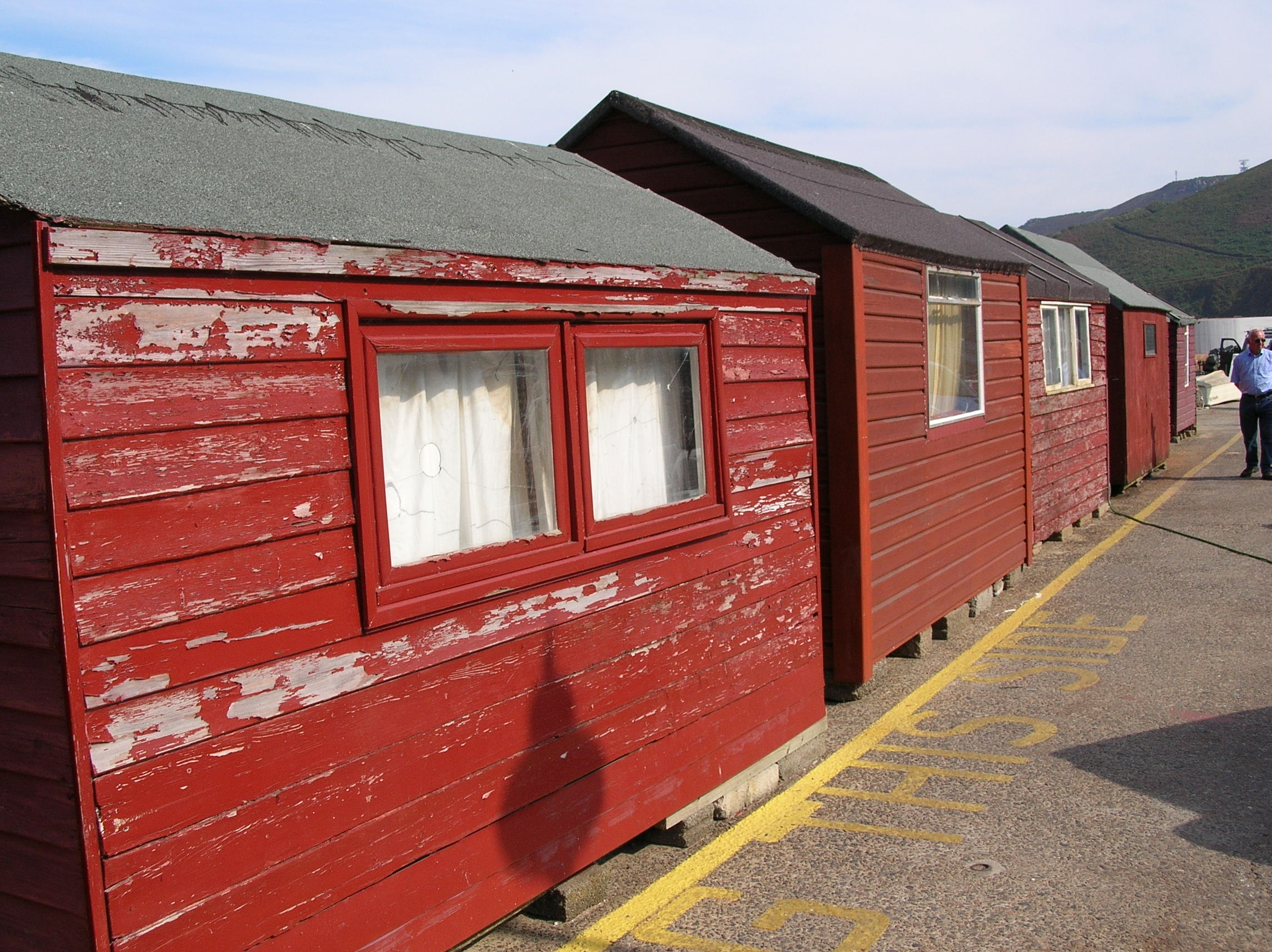 Fishermens Huts at Bonne Nuit in Jersey.